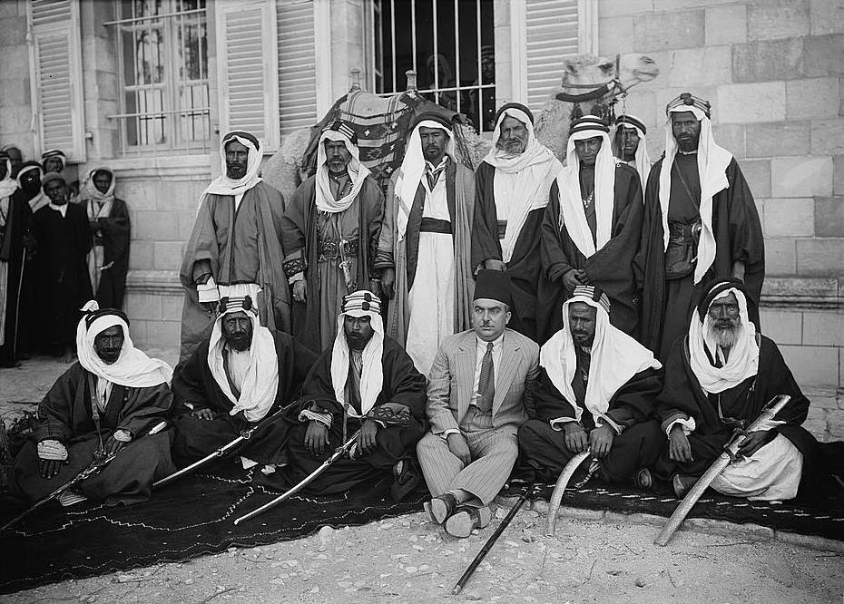 Palestinian historian Aref al-Aref (middle, seated) when he was governor of Beersheba during British rule of Palestine